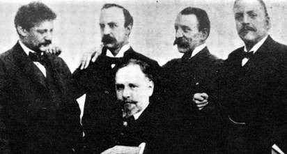 The Nuovi Goliardi team